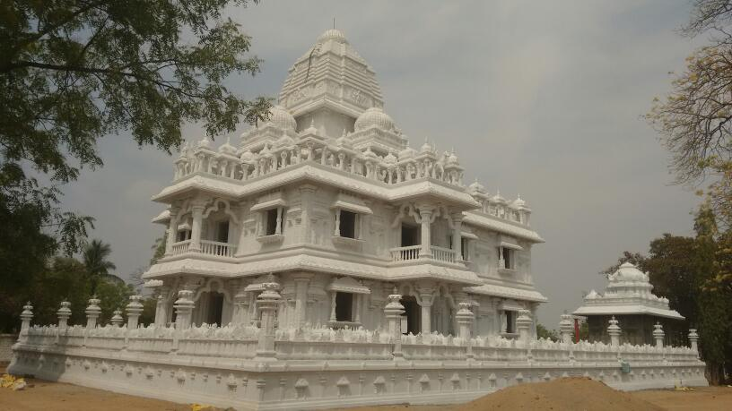 300 years old temple(guru dwara)